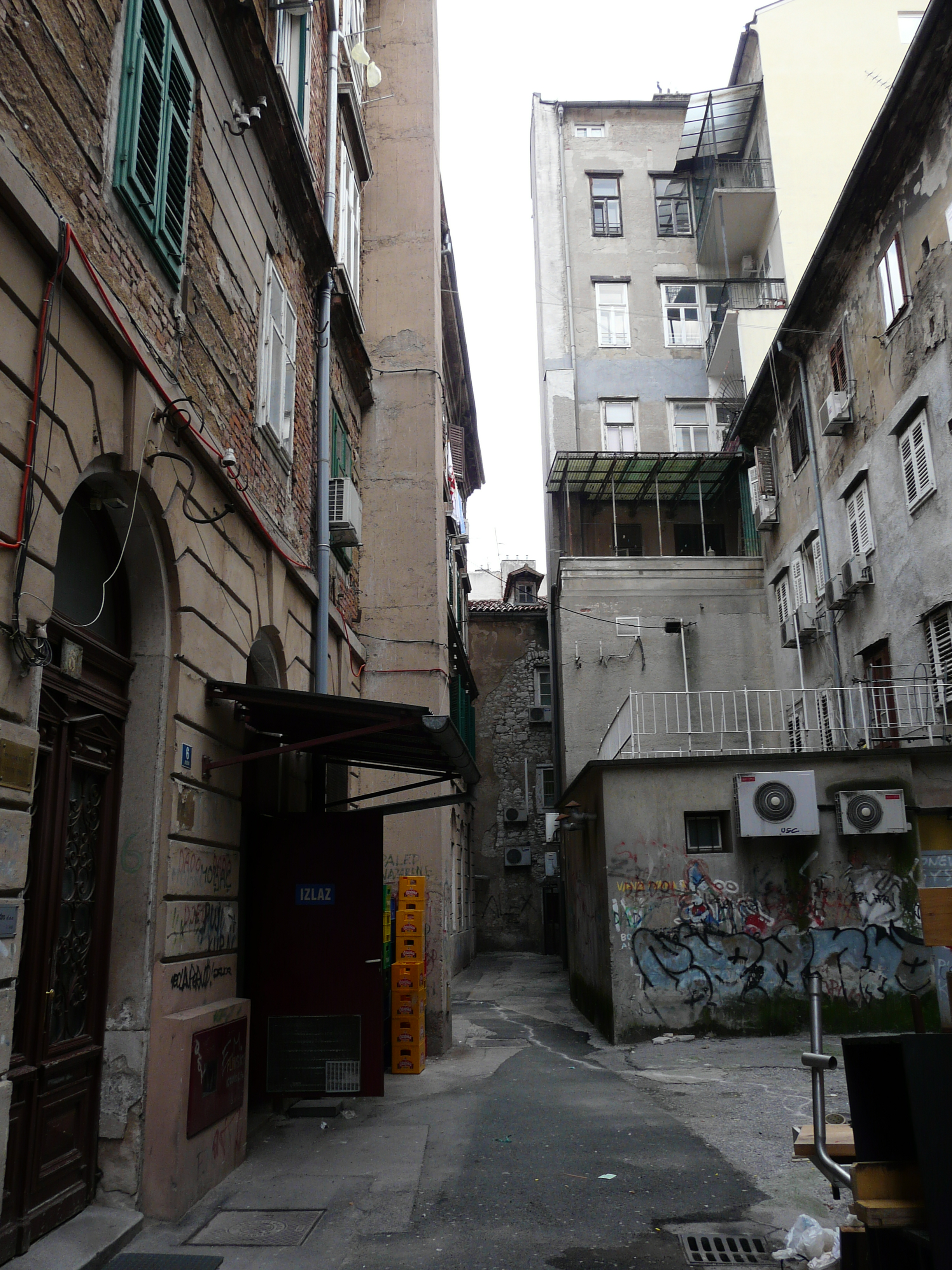 Back side of Mattiassi House on Korzo str 38 in Rijeka, Croatia.